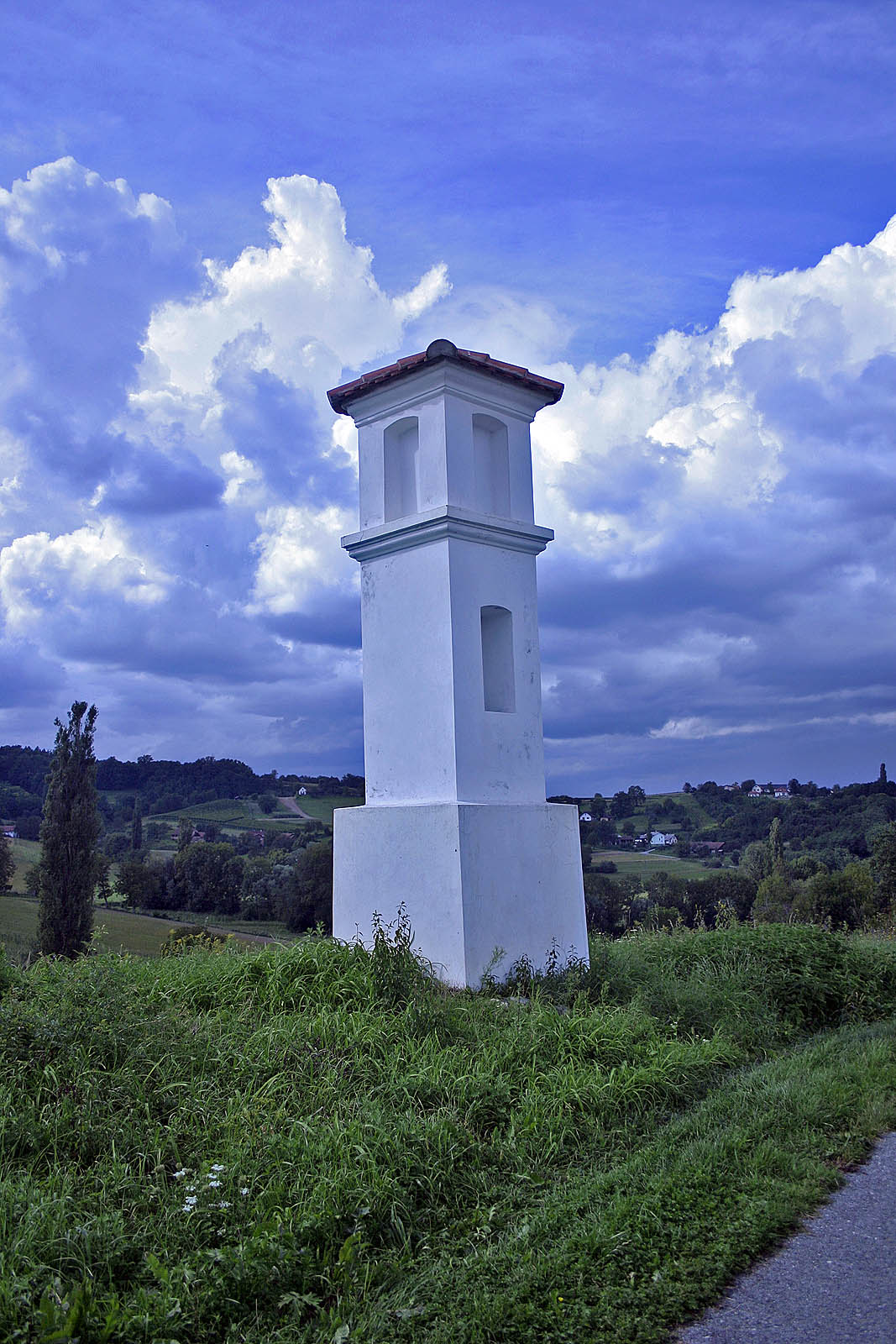 Perš Cross, wayside shrine in Večeslavci, northeastern Slovenia.